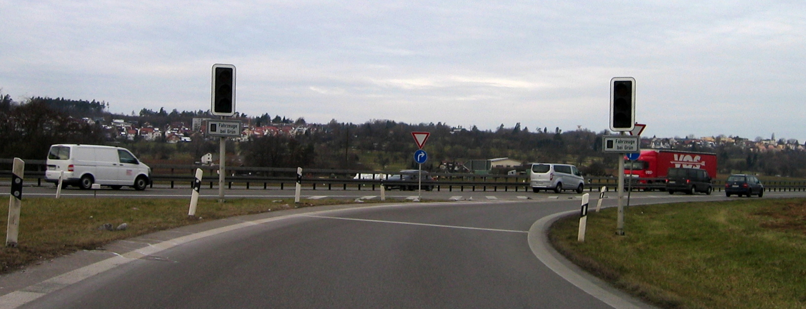 Ramp meter B27 L1209@B27, Filderstadt, BW, Germany